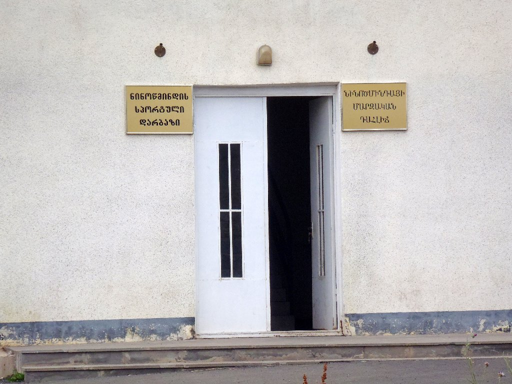 Sport school in Ninotsminda, Samtskhe-Javakheti, Georgia